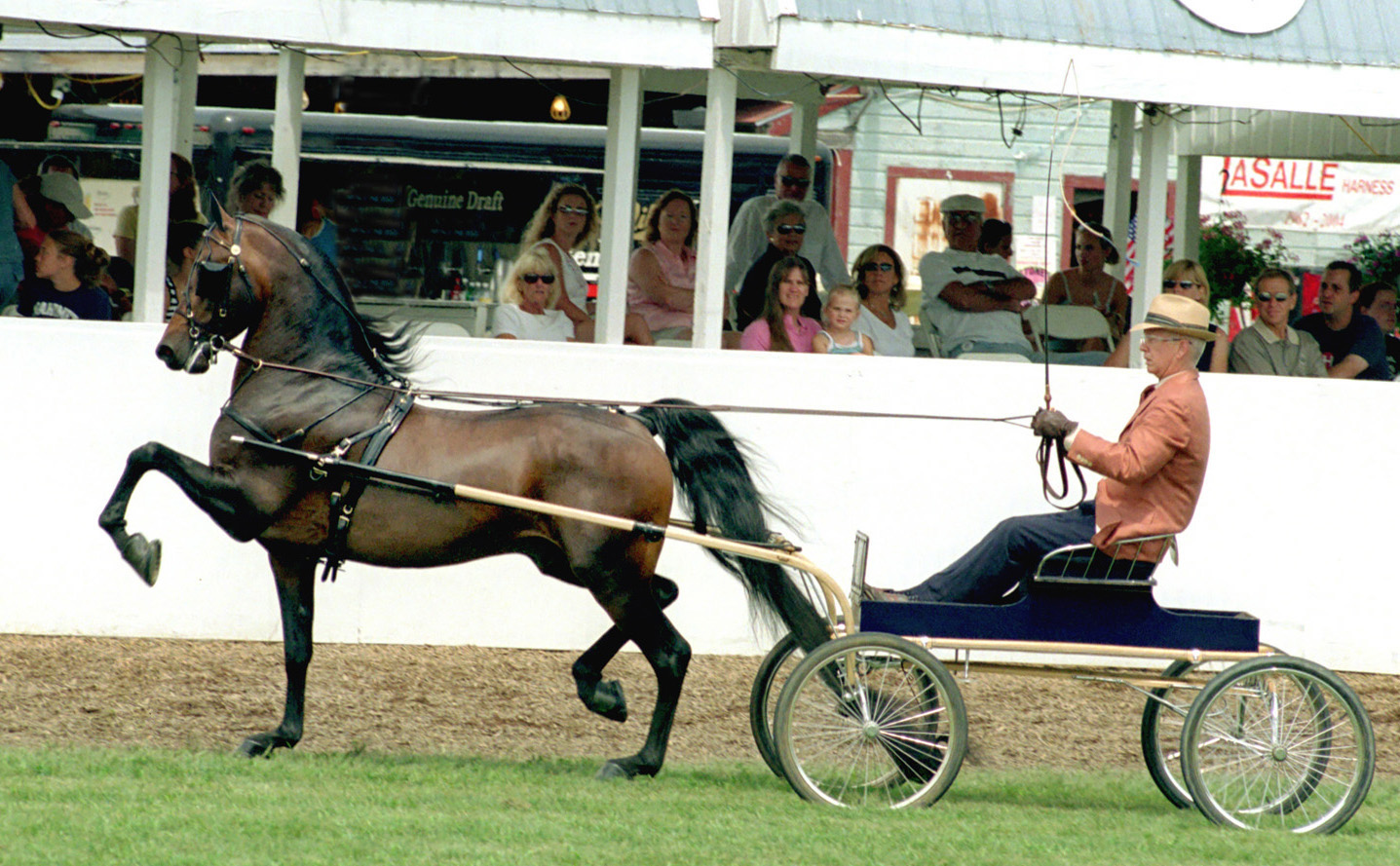 Morgan horse at New England Horse Show